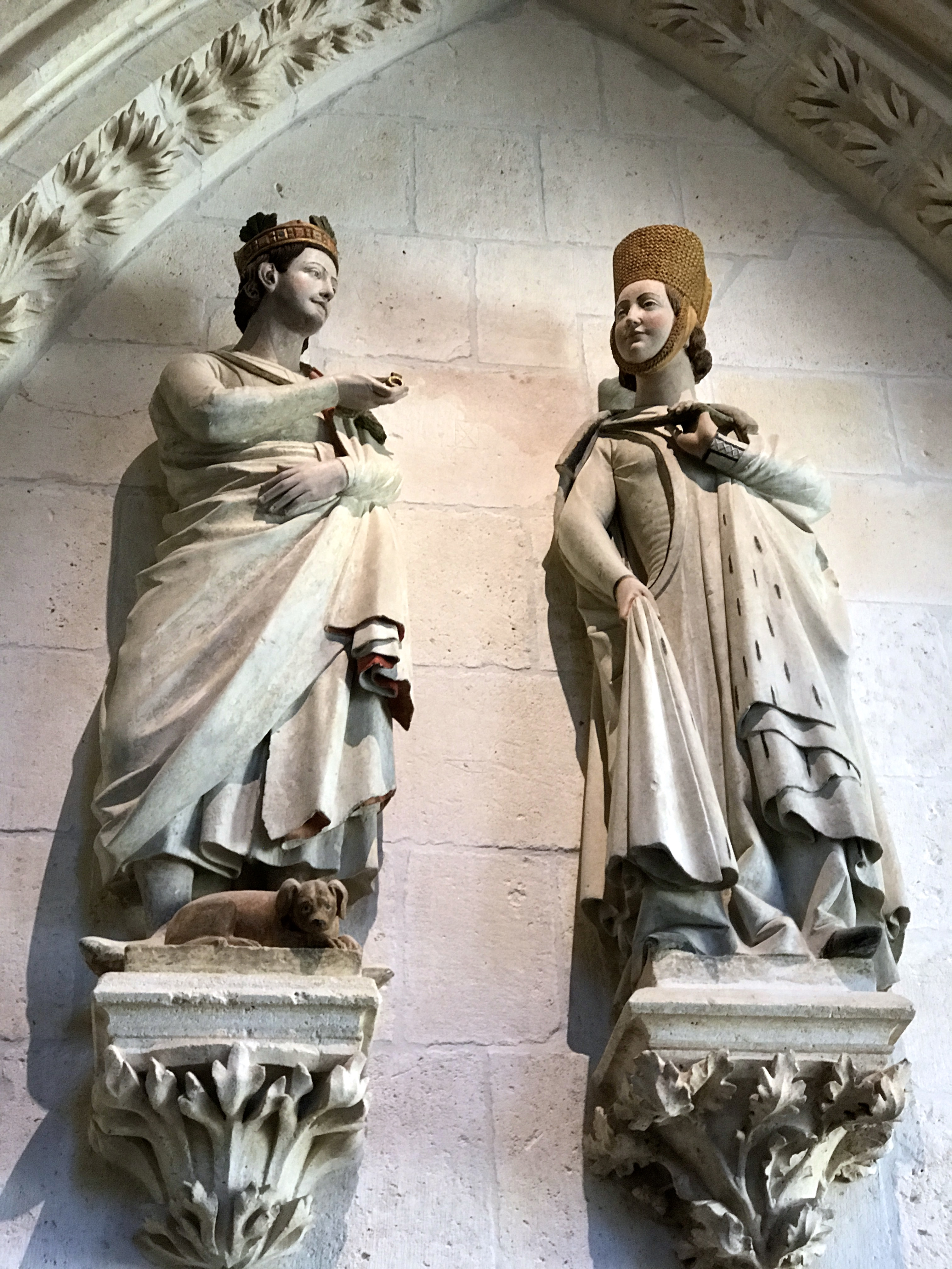 King Ferdinand and his wife, Beatriz